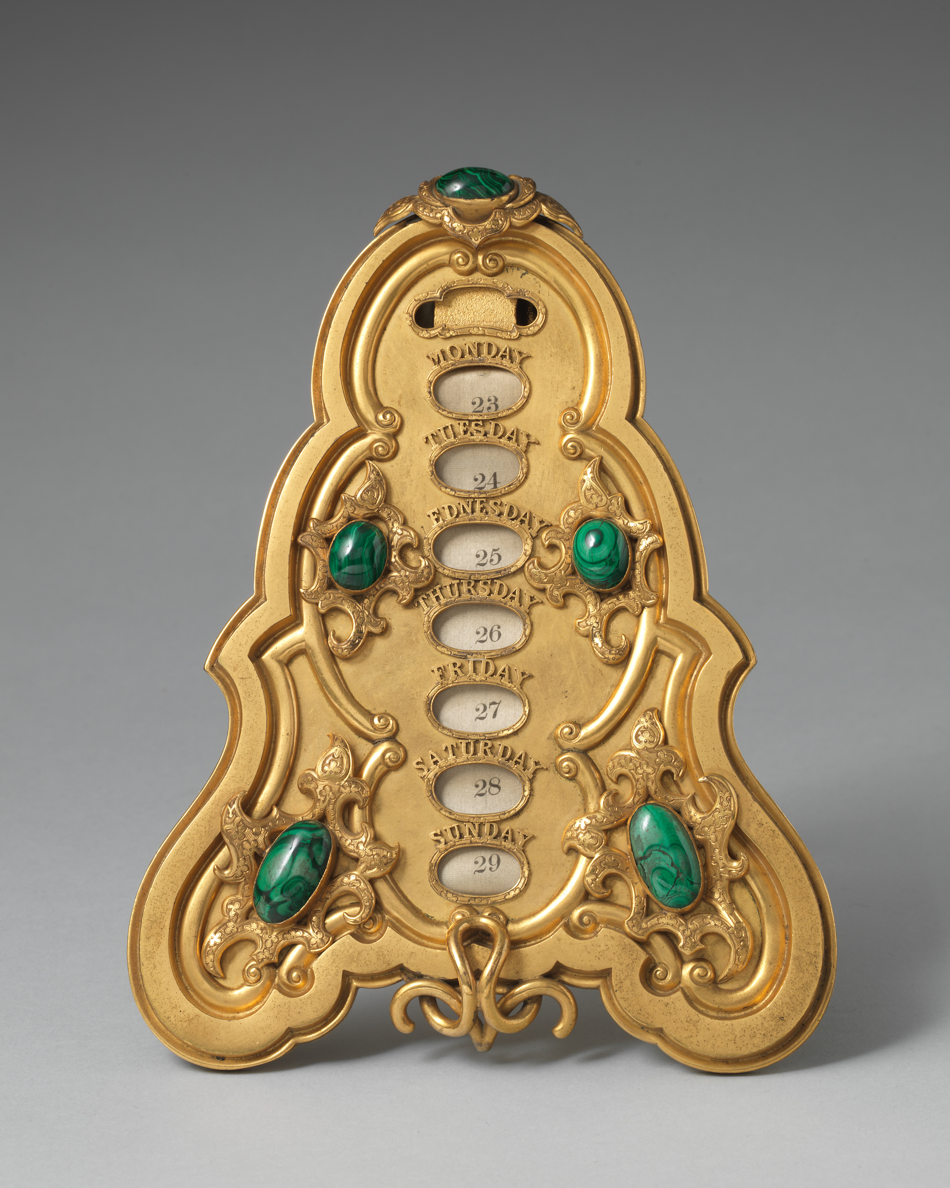 British, London; Calendar; Metalwork-Gilt Bronze